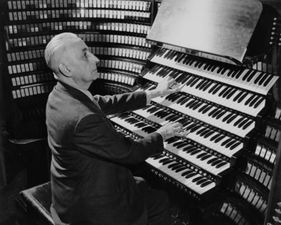 French organist and composer Marcel Dupré (1886-1971) playing the Wanamaker Organ in Philadelphia.